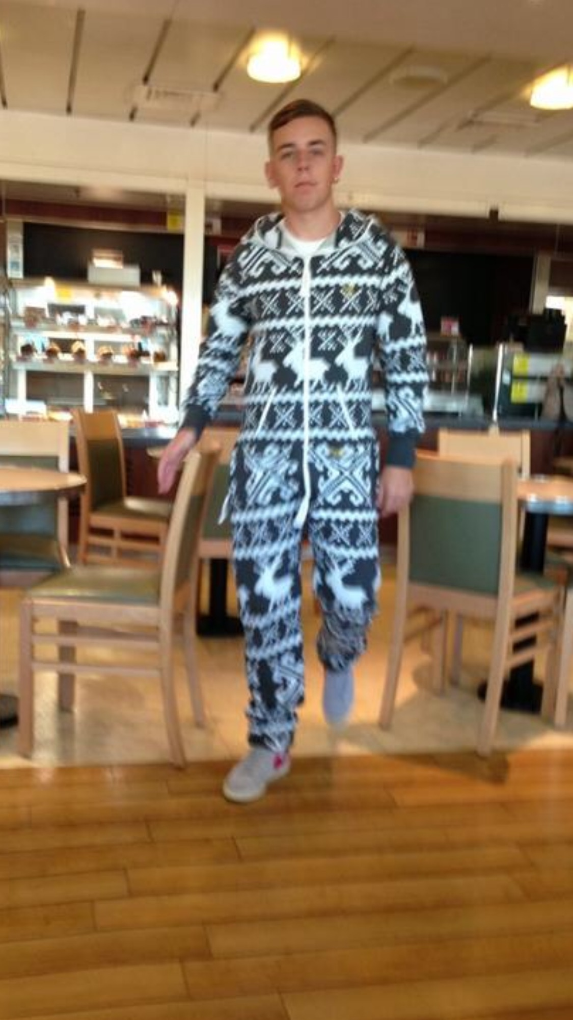 Oliver Brown, born 1993, is a British amateur snooker player.